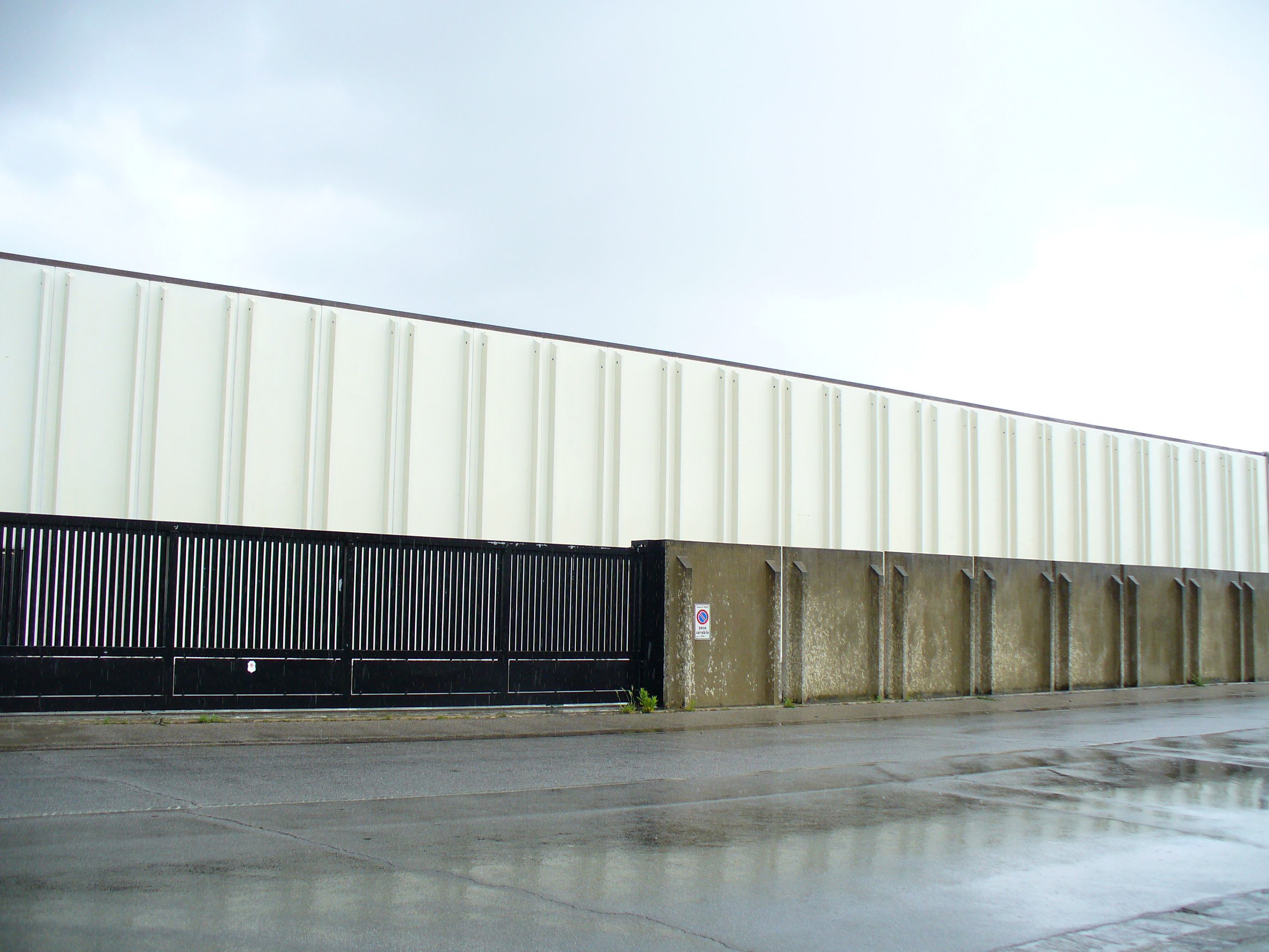 Sammontana Factory